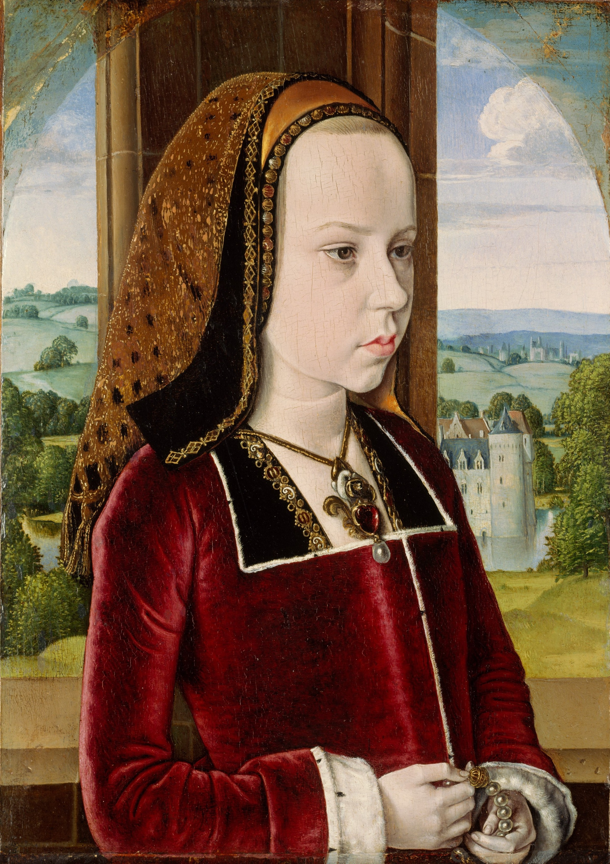 Painting of supposed future Queen of France, Margaret of Austria.